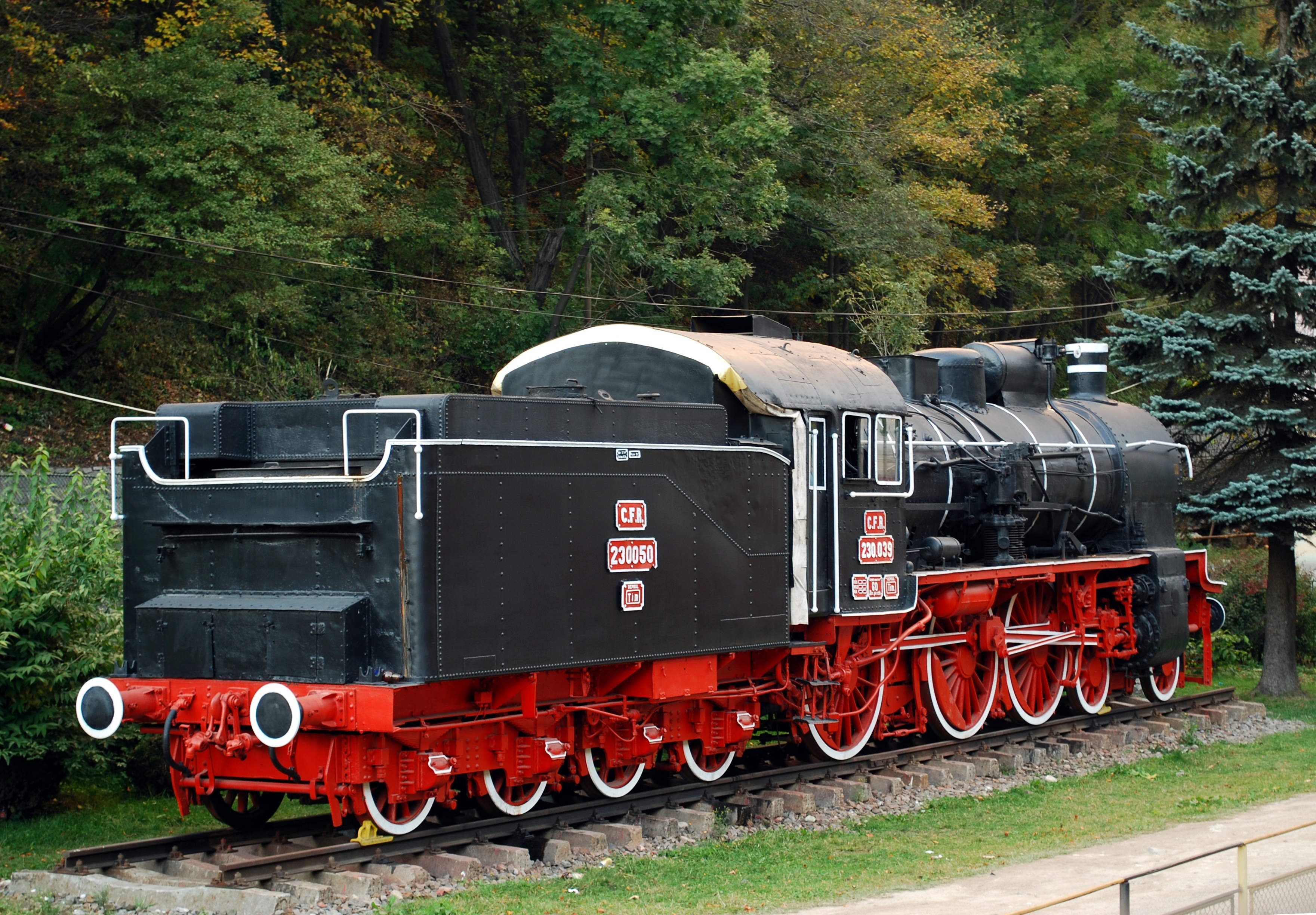 CFR steam engine no. 230039 exhibited in the Sinaia railway station. The 230 series were steam engines used for pulling passenger trains.